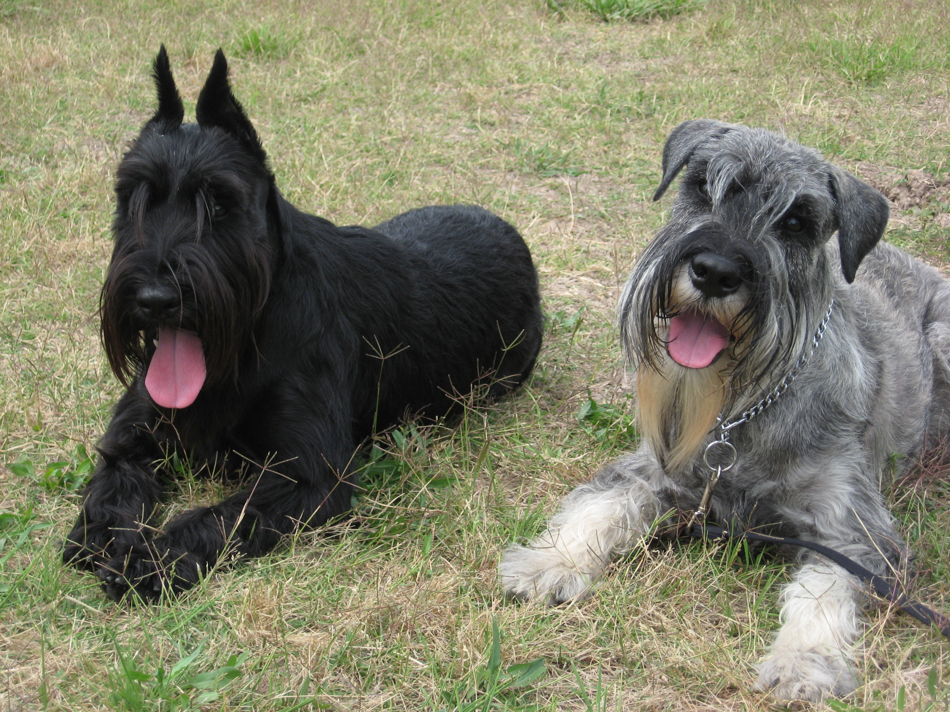 Black female Std. Schnauzer, cropped ears (1.5 years old, "Stahlkrieger's Solitaire"): Pepper/salt male Standard Schnauzer, natural ears (9 months old, "Stahlkrieger's Southern Light")